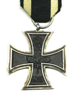 Iron Cross 2nd class 1813 (Friederich-Wilhelm III)